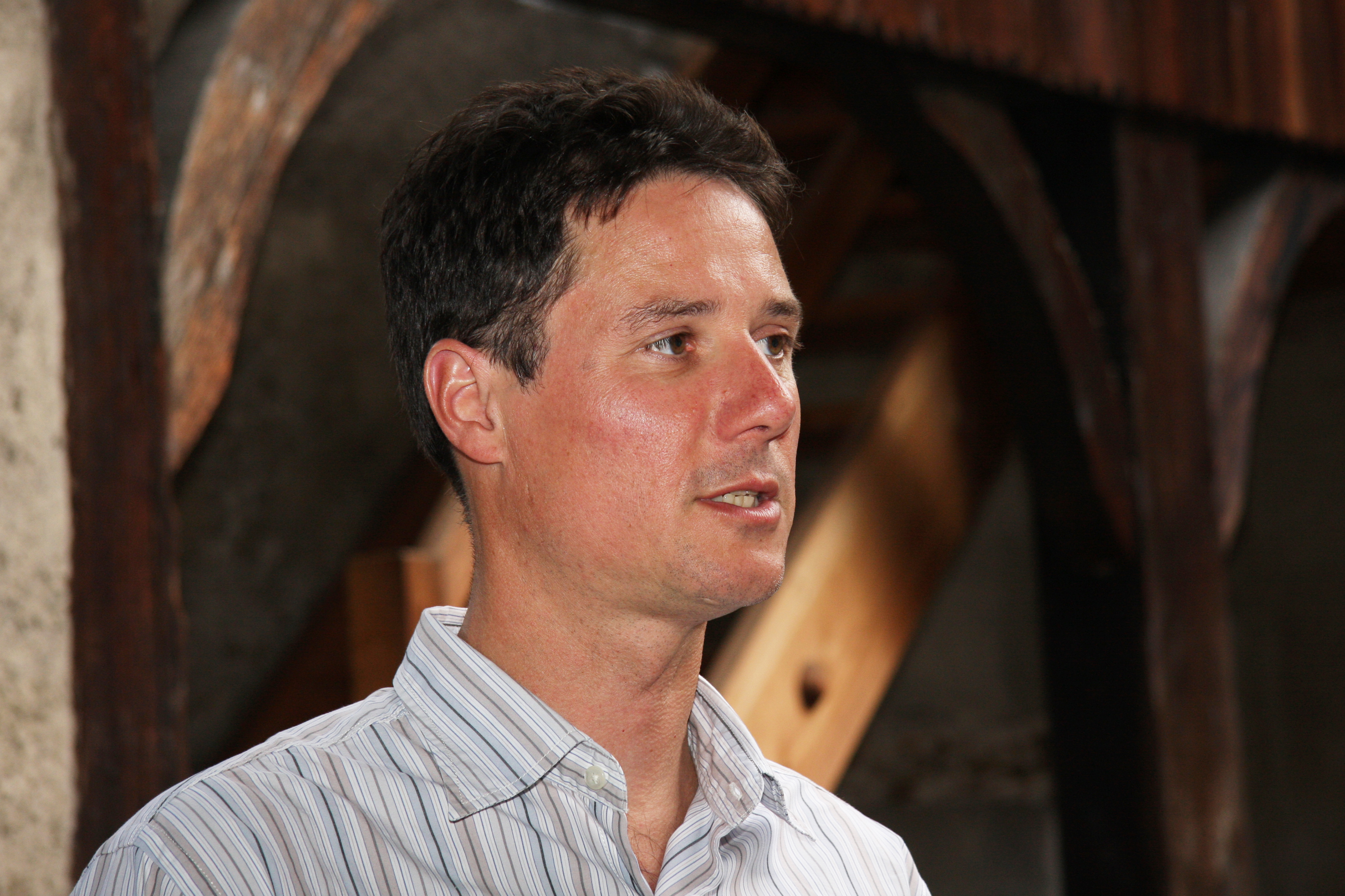 Professor Jean Pieters